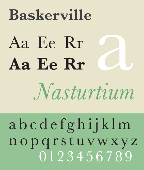 Specimen of the typeface Baskerville. 11.02.07, Jim Hood.